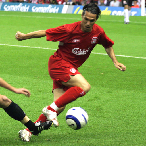 Liverpool footballer Luis Garcia.